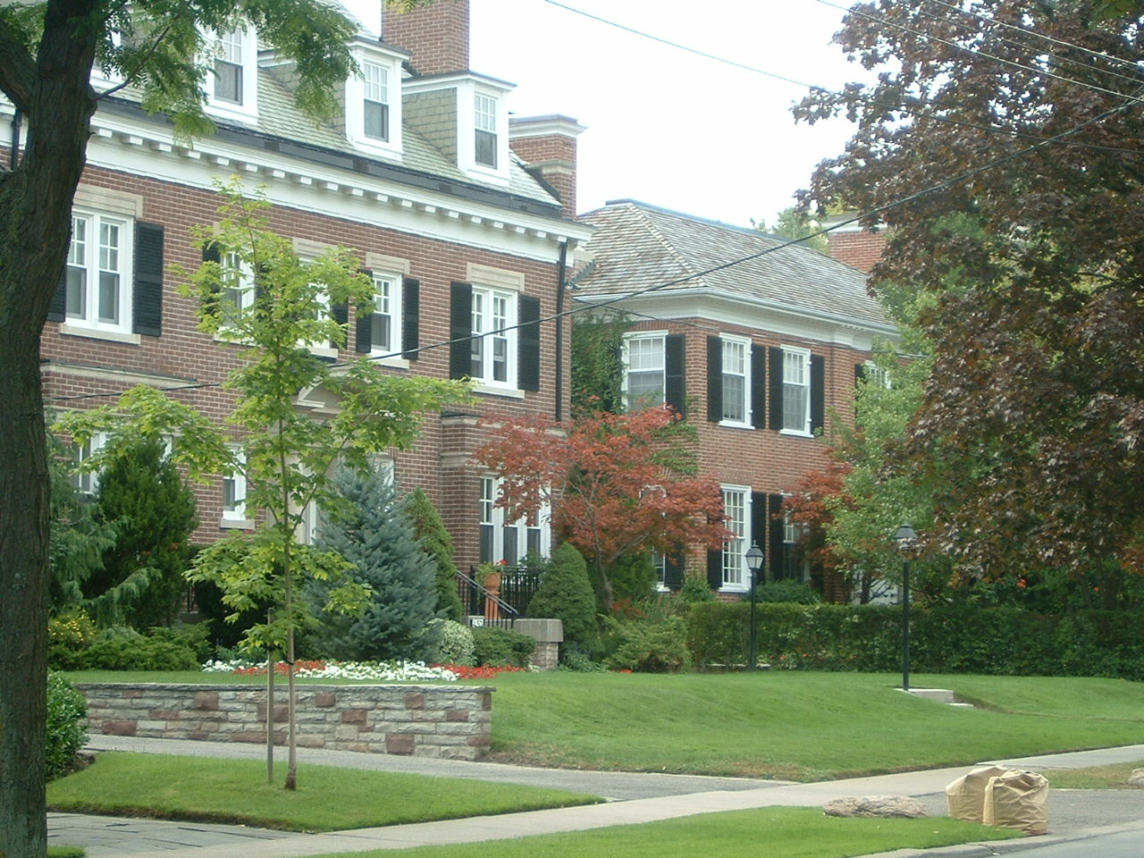 Houses on Warren Road, Forest Hill, Toronto, August 2003